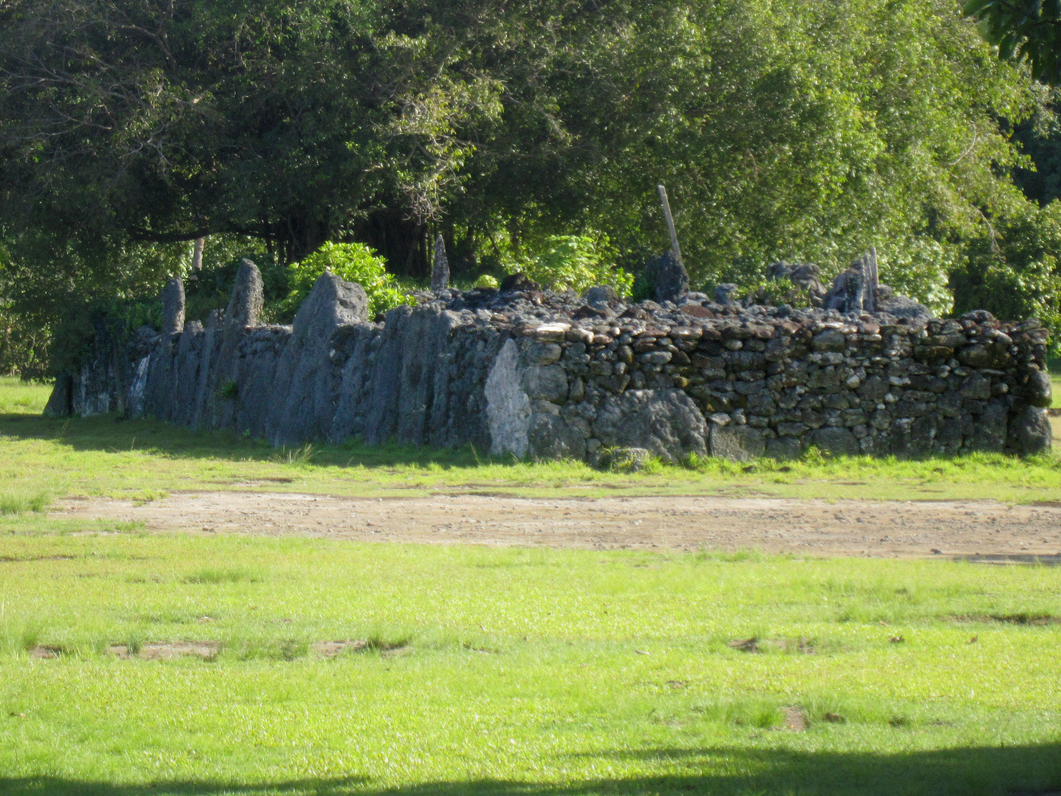 Marae in the Te Pō complex, Ōpoā, Ra’iātea.